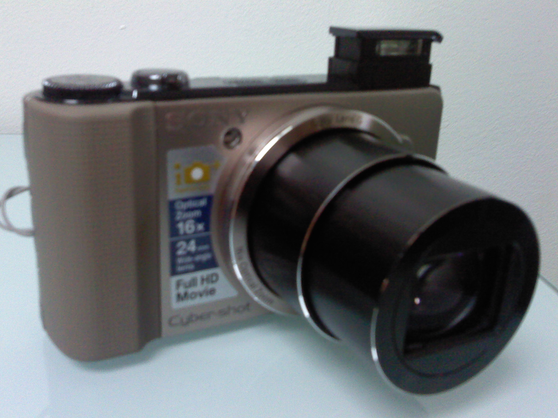 Sony DSC-HX9V (zoom & flash)